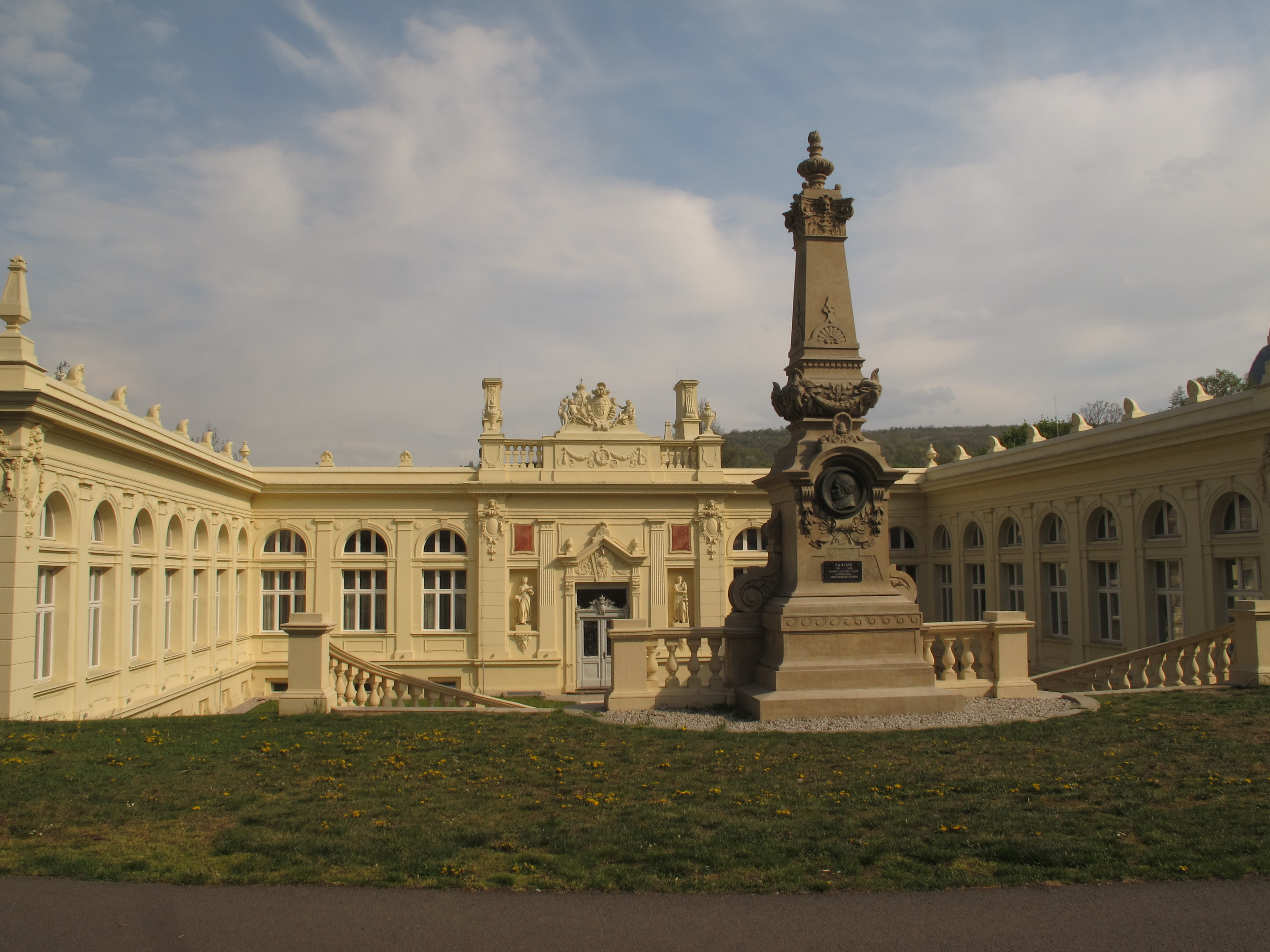 Old bottling factory Bílinská Kyselka